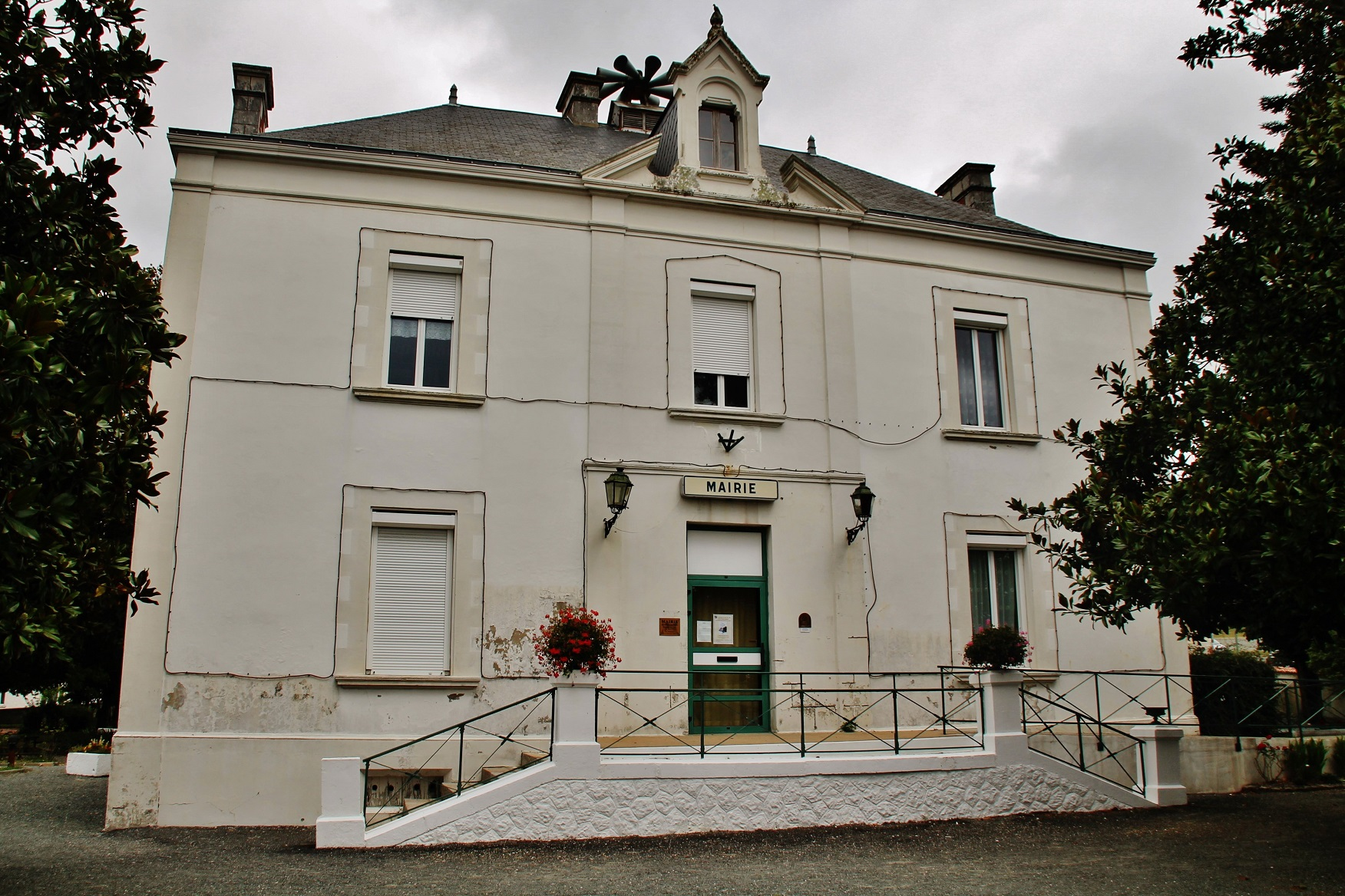 La Mairie